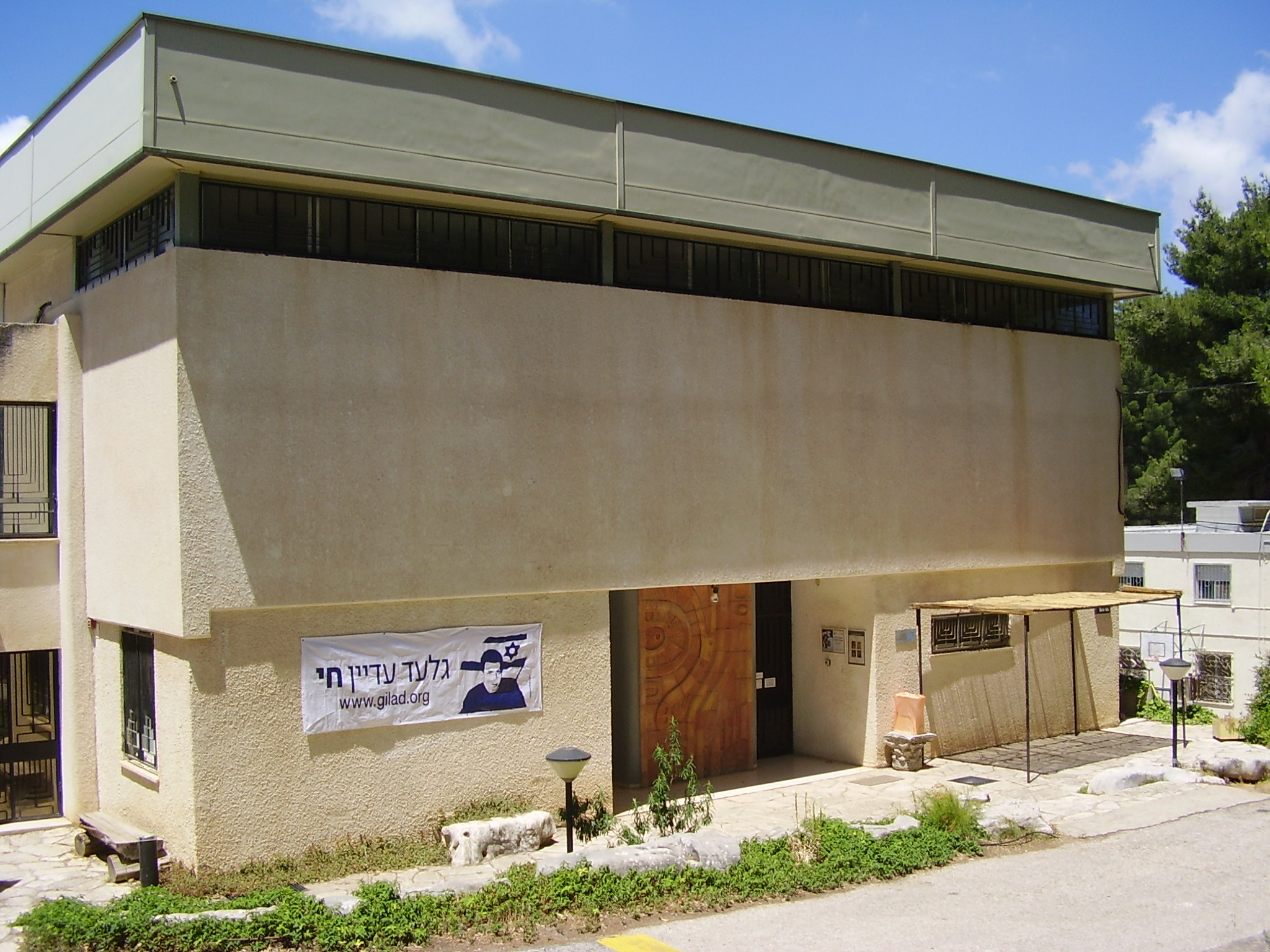 museum bar-daviv in kibutz baram מוזיאון בר דוד לאמנות ויודאיקה בקיבוץ ברעם